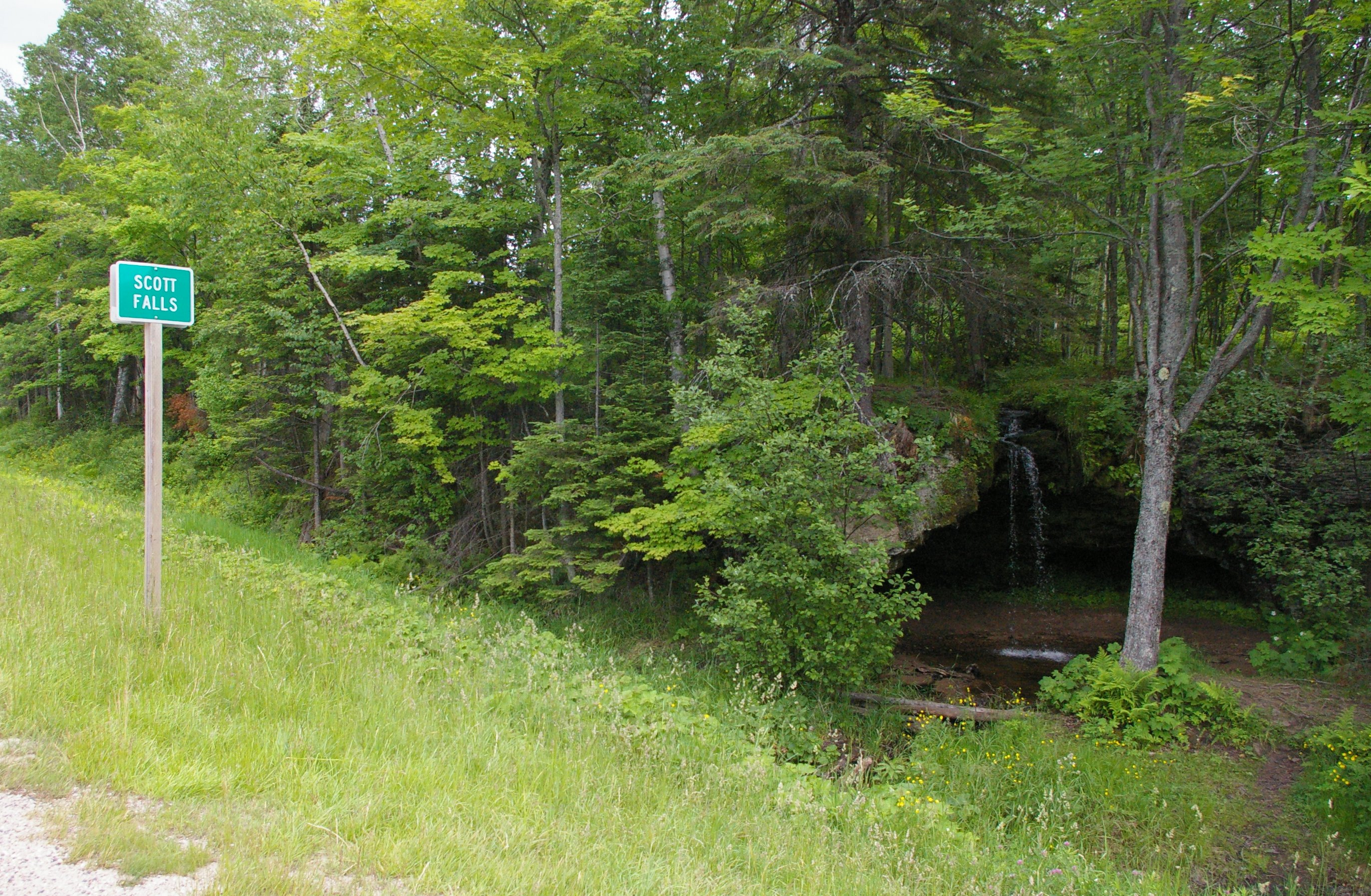 A view of Scott Falls near Au Train, Michigan.